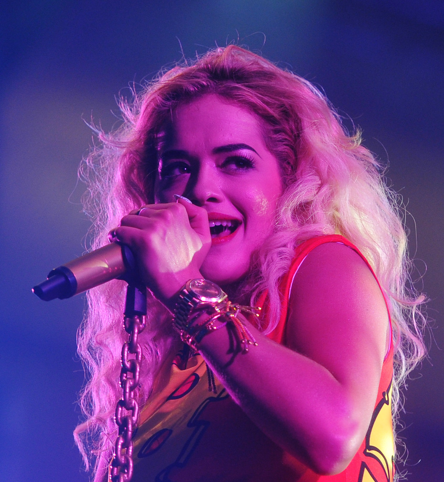 SEPANG,17/03/2013. Rita Ora during Future Music Festival Asia 2013 at Sepang. Pix Firdaus Latif